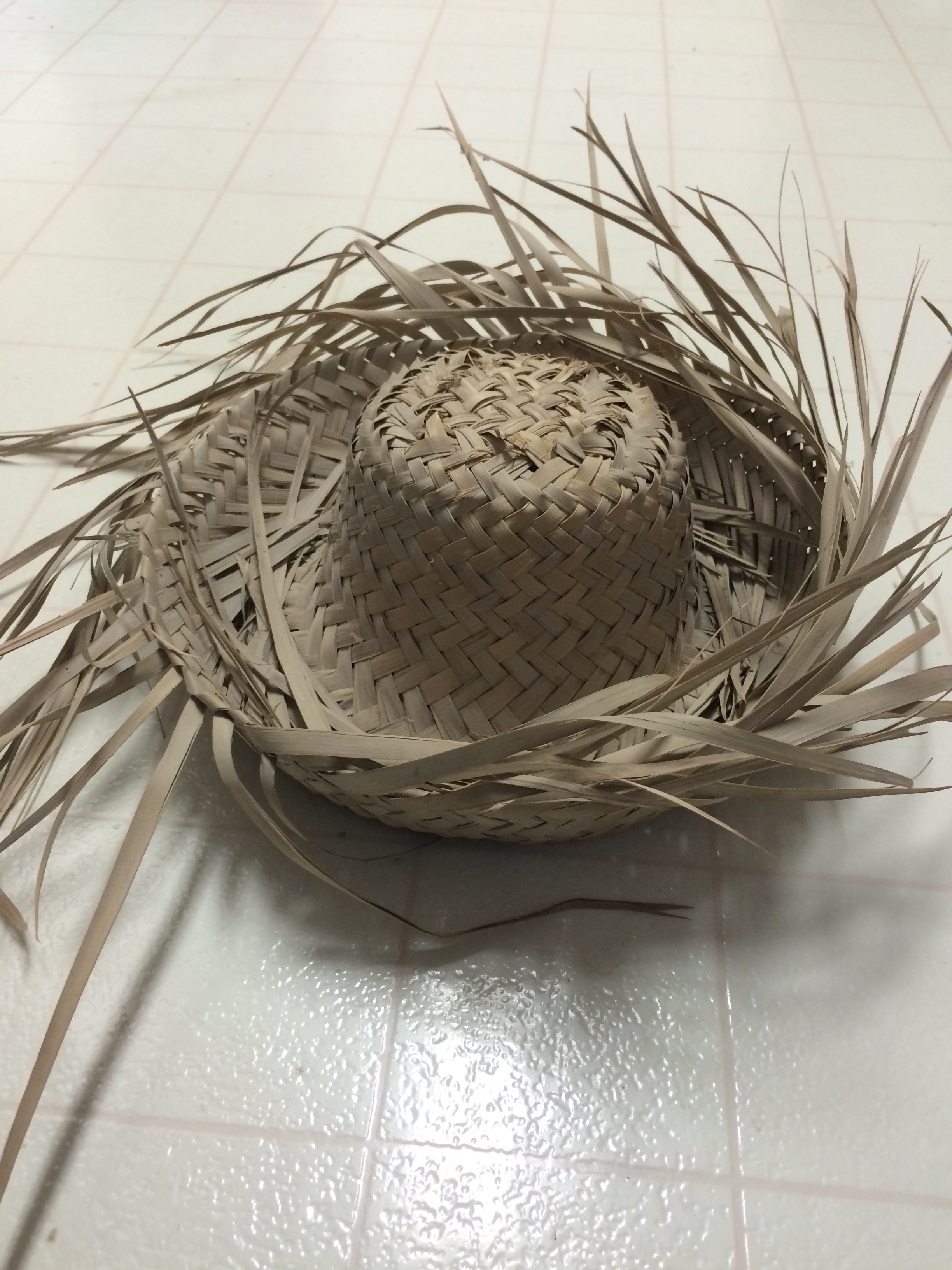 This is the typical hat of the Puerto RIcan Jíbaro.